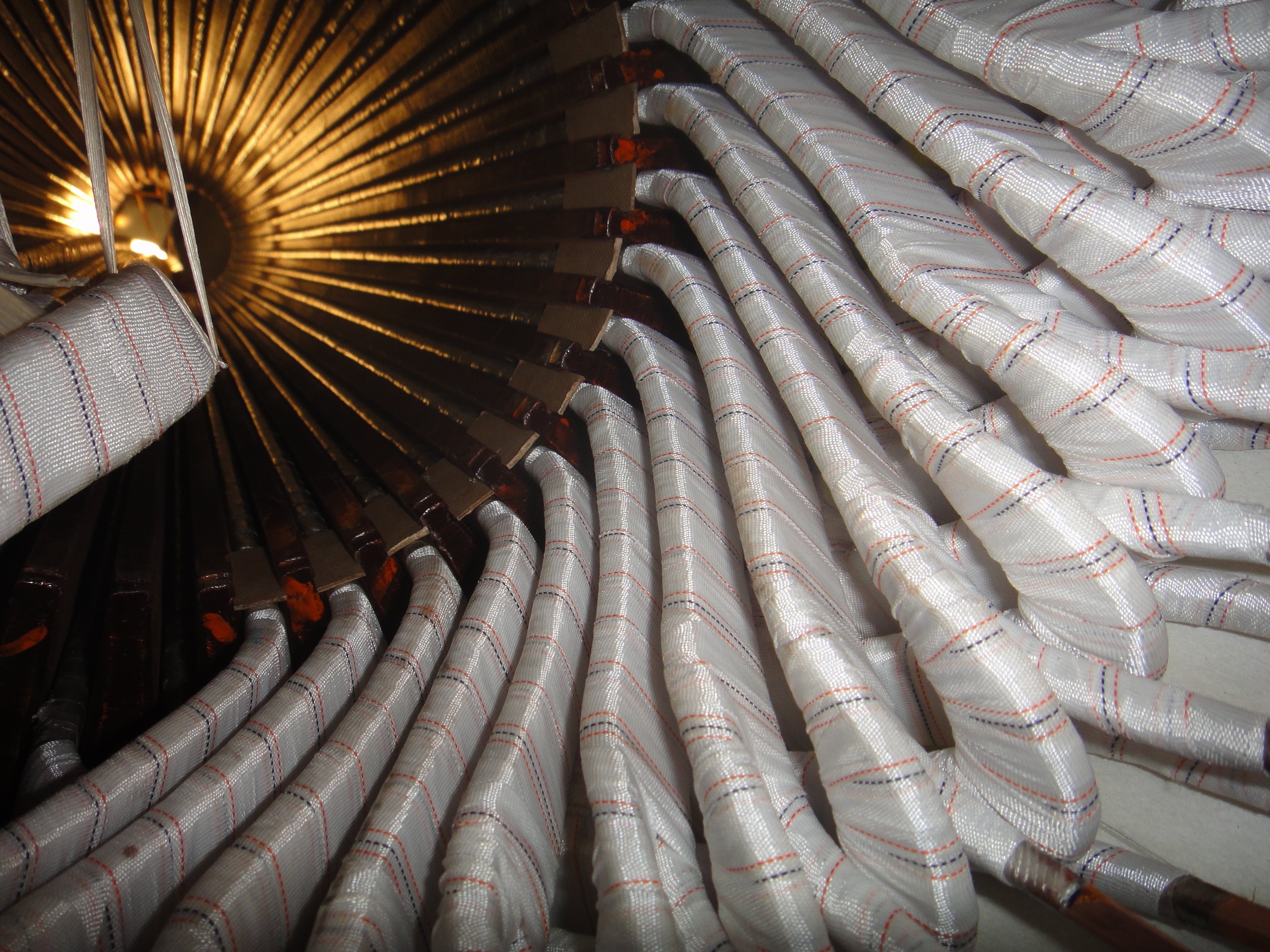 Houghton International - High Voltage Coil